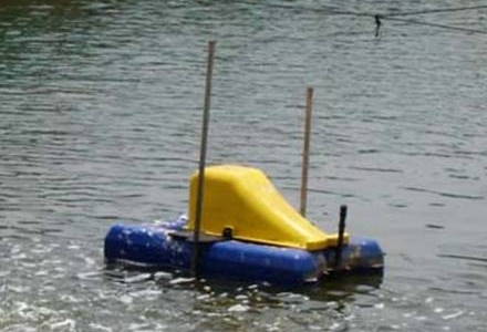 A so-called "Turbo aerator" used on a shrimp farm in Indonesia. Two horsepowers. Visible is only the air intake; the aerator paddles one meter below the water surface. To avoid stirring up sediments from the pool bottom, the water depth should be at least 1.5 m.